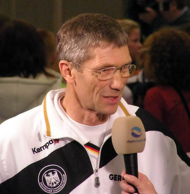 Armin Emrich, coach of the German national women's handball team in an interview.